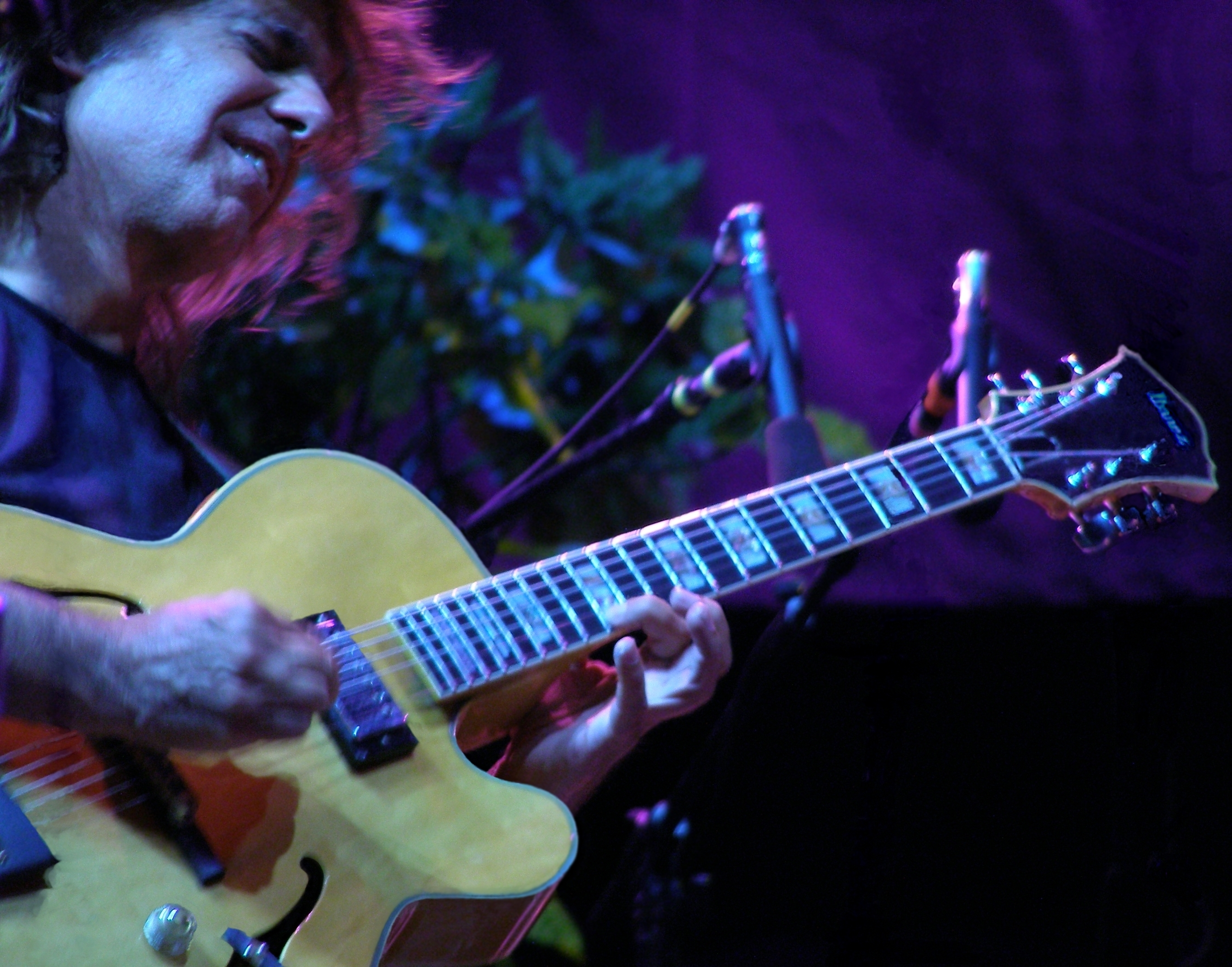 Pat Metheny playing his guitar at Milano Jazzin' Festival.